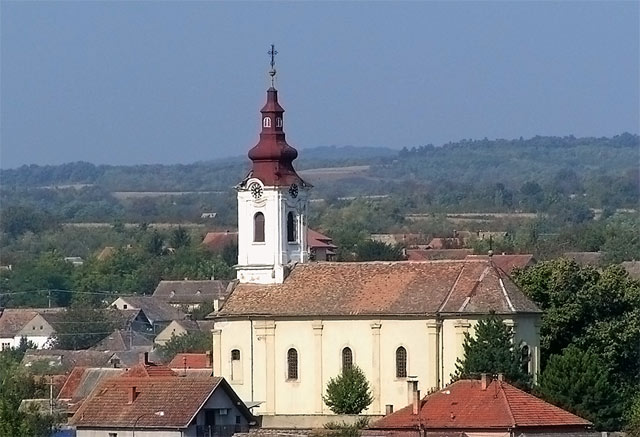 Irig_orthodox_church